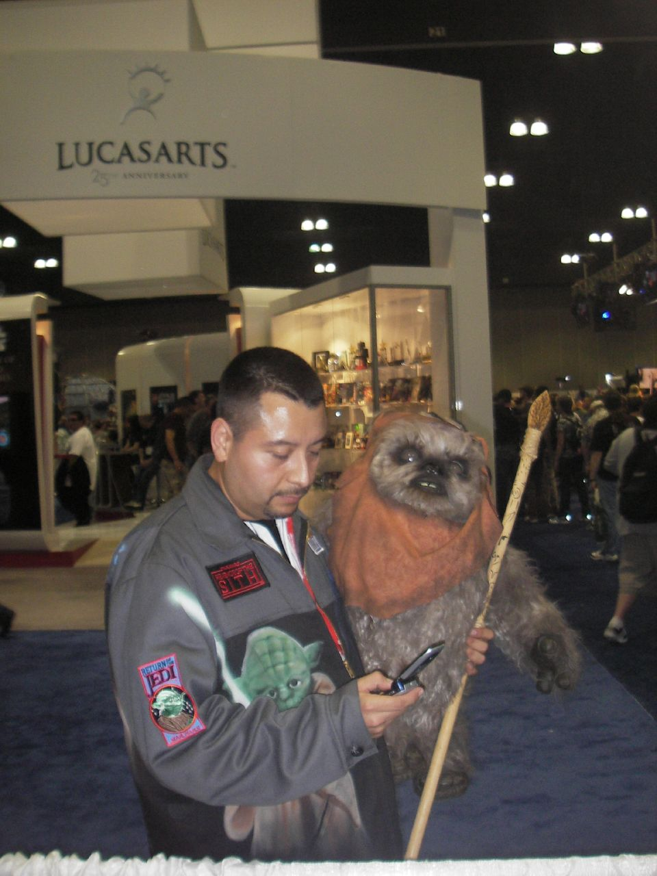 Ewok (Star Wars Celebration IV, Los Angeles, California, USA). Orginal text: Getting an important call Ken Steacy invited me to California to help him with his Star Wars Celebration 4 Booth. We sold prints and sketches.